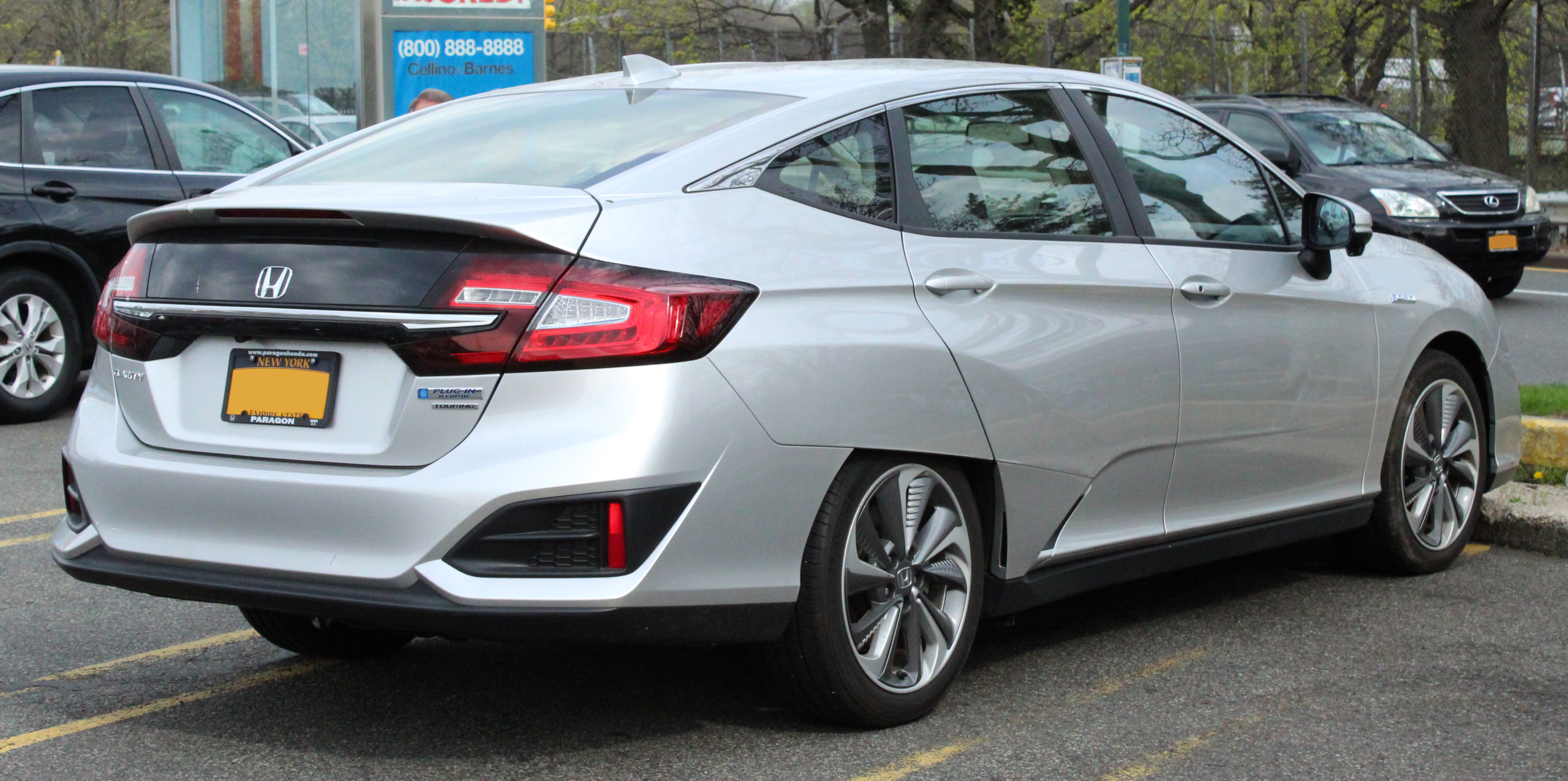 A 2018 Honda Clarity Touring Plug-in Hybrid photographed in Queens, New York, USA